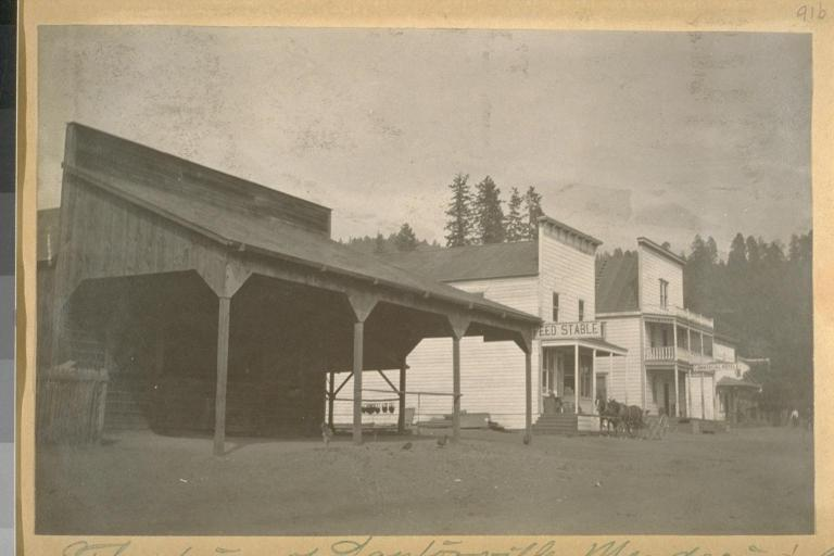 Jesse Brown Cook Scrapbooks Documenting San Francisco History and Law Enforcement